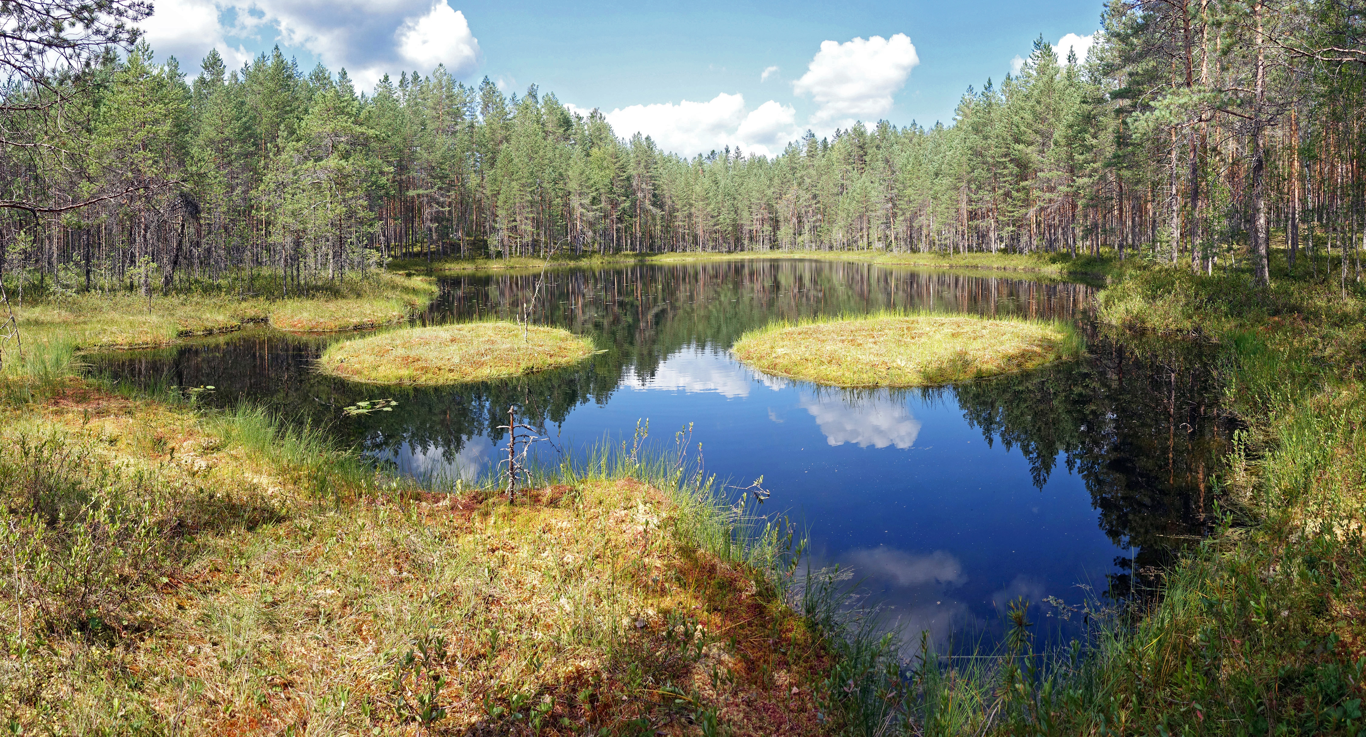 A pond at the Leivonmäki National Park in Finland.